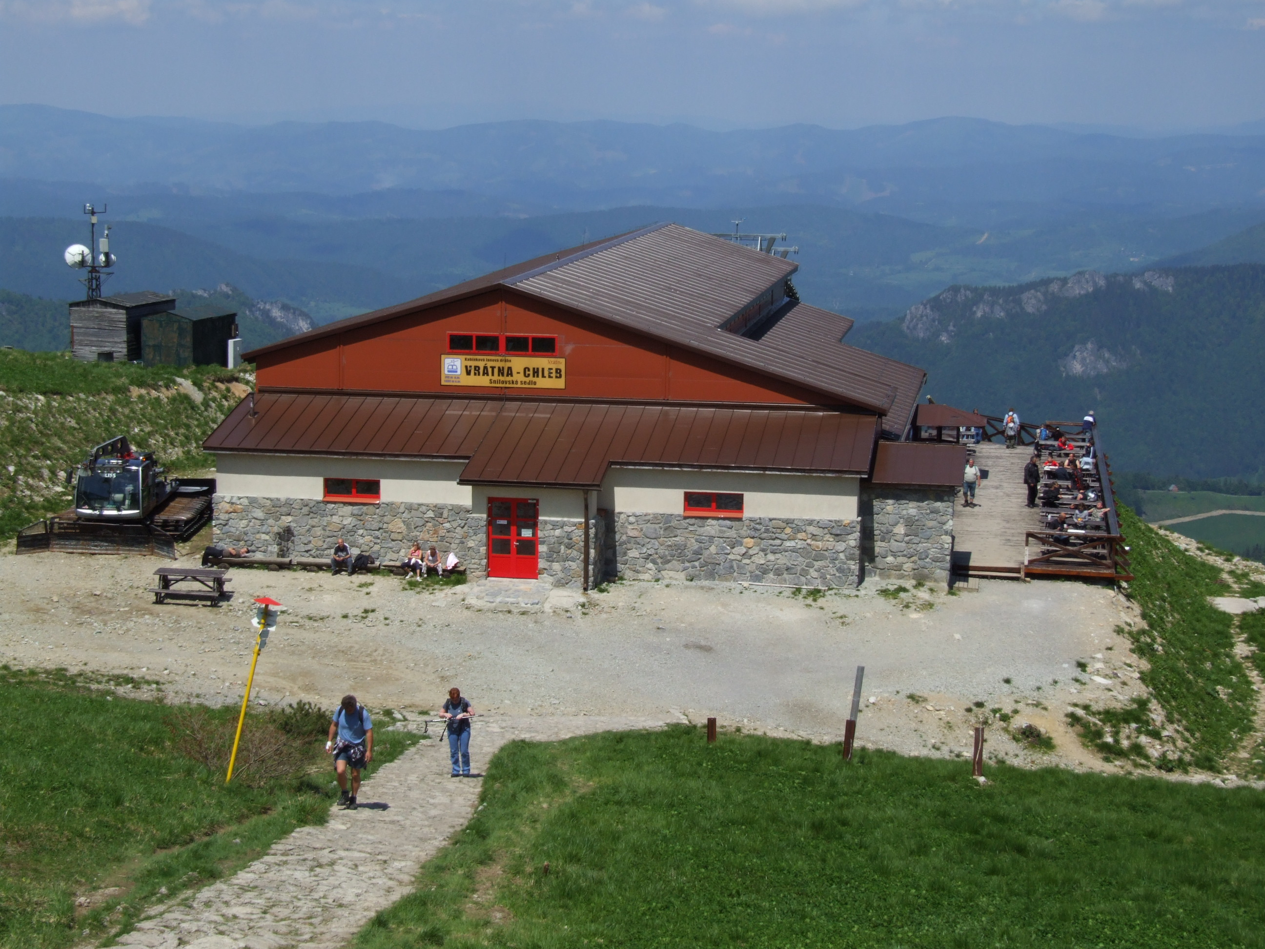 Malá Fatra, Slovakia. Gondola lift from Vratna valley - upper station